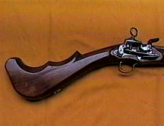 Photograph of a Spanish miquelet escopeta with an unusual stock on display in the Mission San Juan Capistrano